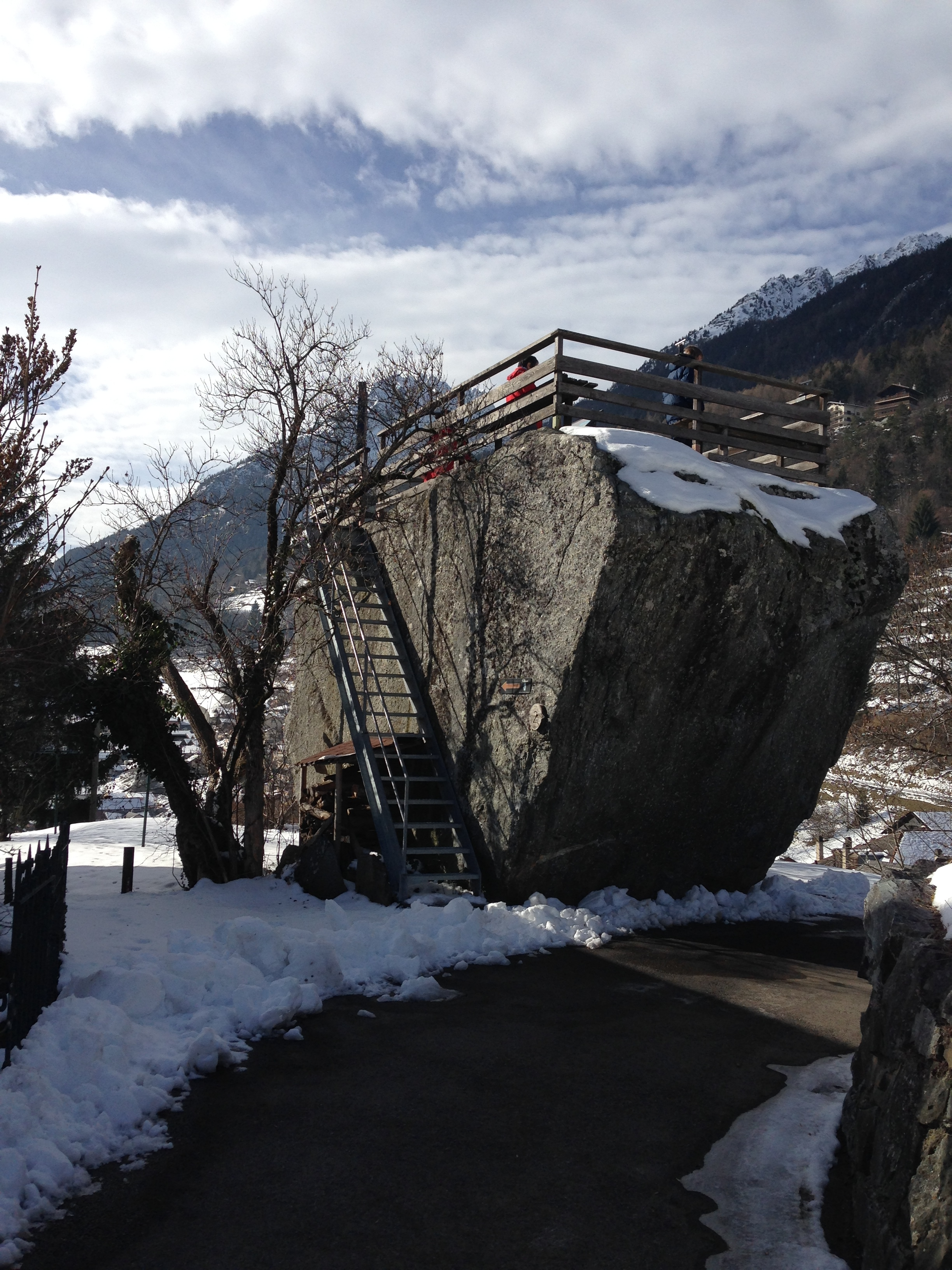 The rock form where Marconi undertook early wireless experiments in 1895.